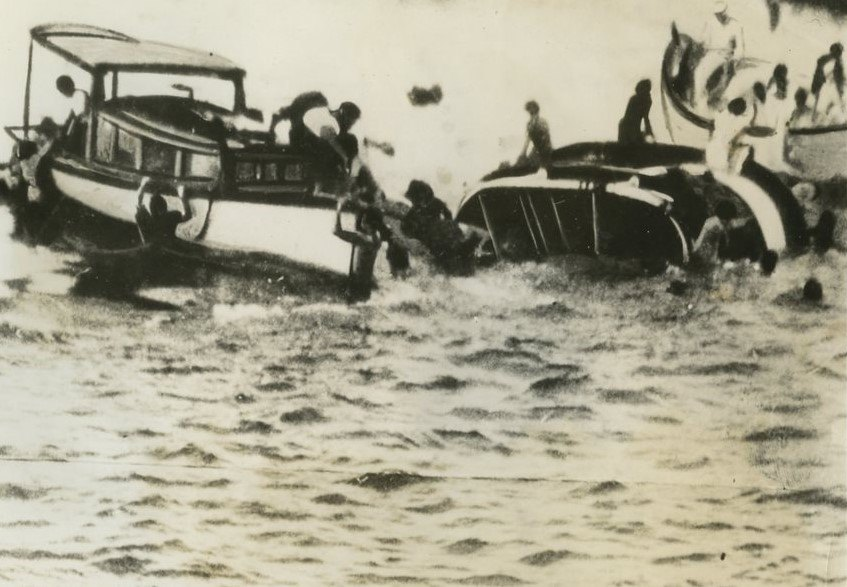 Sydney ferry RODNEY capsized and sinking 12 February 1938